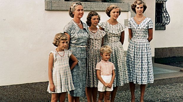 Beginning of the 1950s. Princess Sibylla have gathered her five children at Solliden, from left Christina, Désirée, Birgitta and Margaretha. In the front stands their little brother, who at home was called "the duke" - king Carl XVI Gustaf.